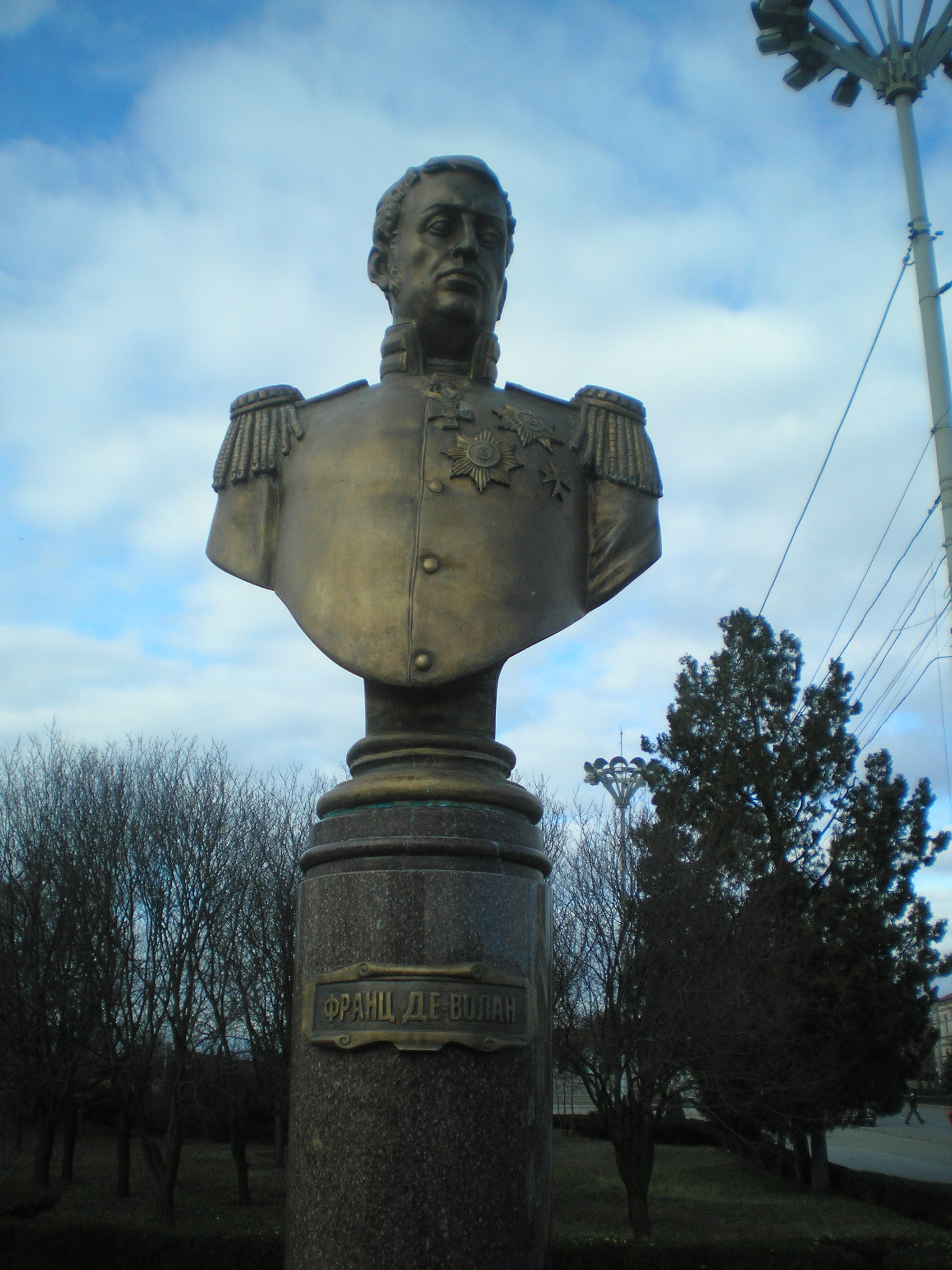 Monument of François Sainte de Wollant in Tiraspol, Transnistria